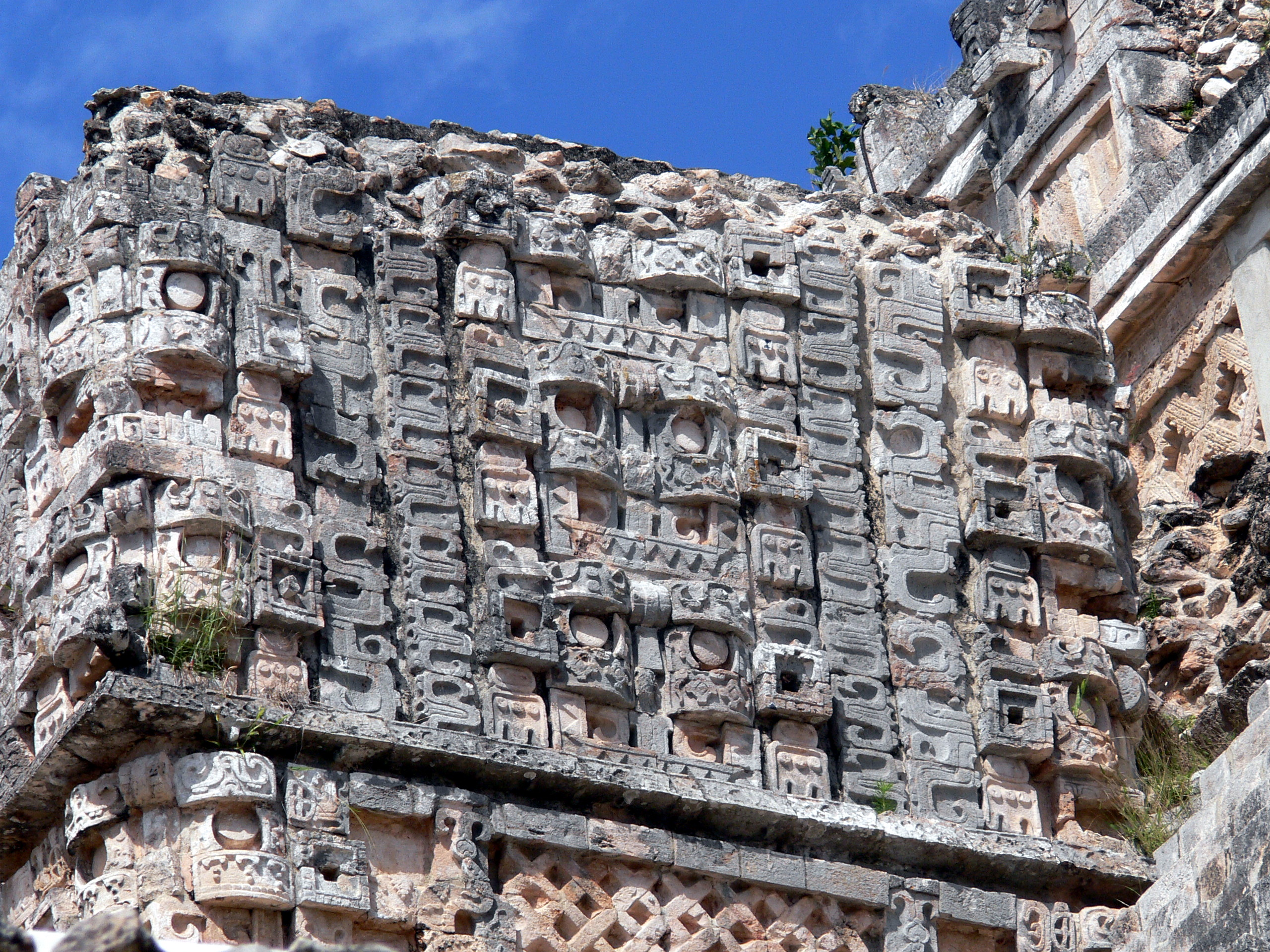 Uxmal ( Yucatan ). Pyramid of the magician: Mask decoration at the temple on top of the pyramid.